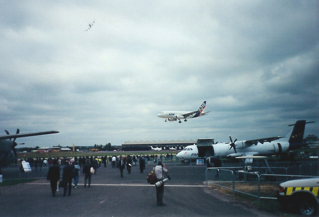 Farnborough Airshow. A view looking northeast towards the crowd line on a fairly quiet trade day at the SBAC Farnborough Airshow, as an Airbus A318 makes a gear down fly by, with an Airbus A340 displaying overhead.